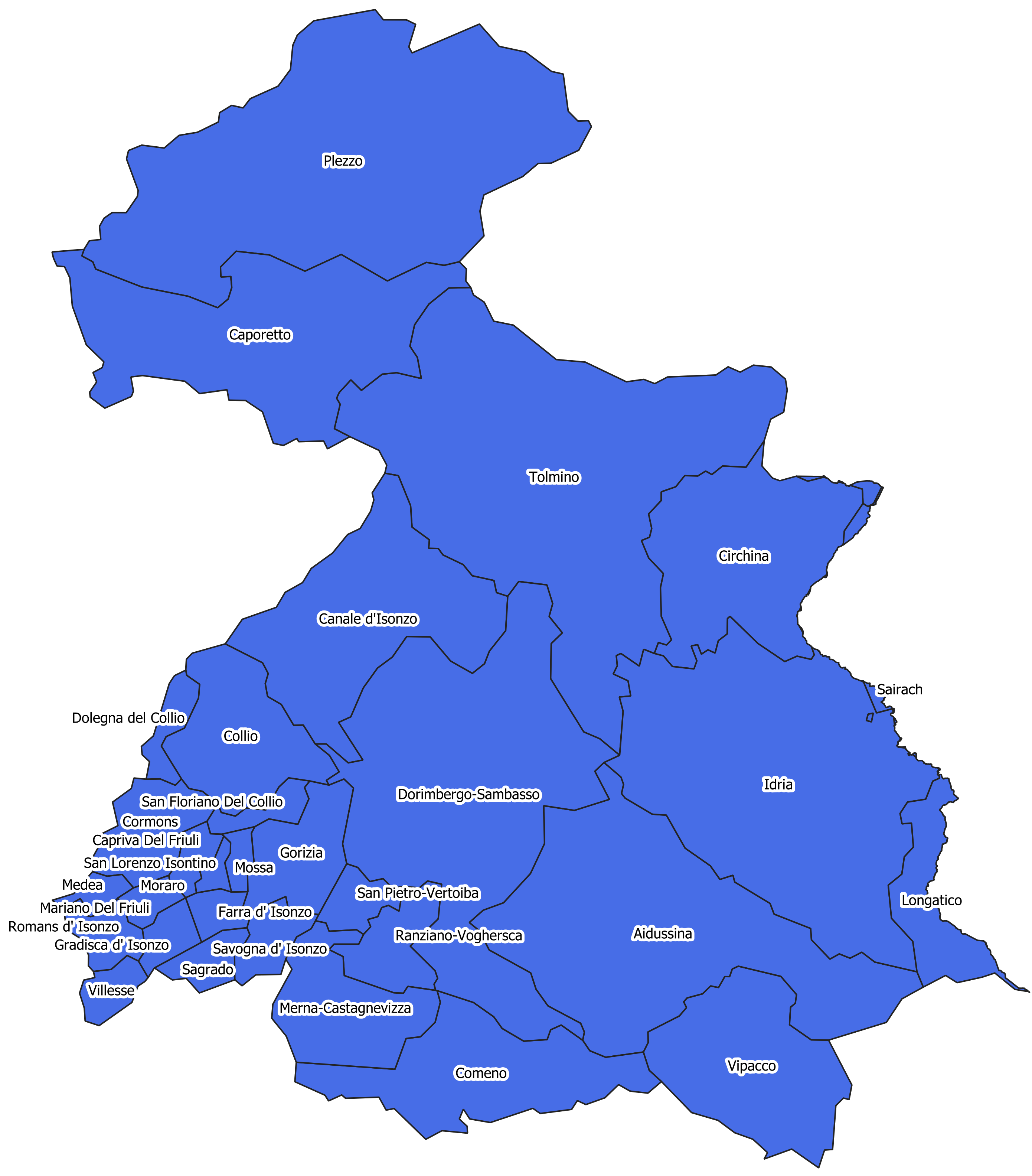 Province of Gorizia in 1927-1943 period; depicted borders don't match the current ones because have been used current administrative borders